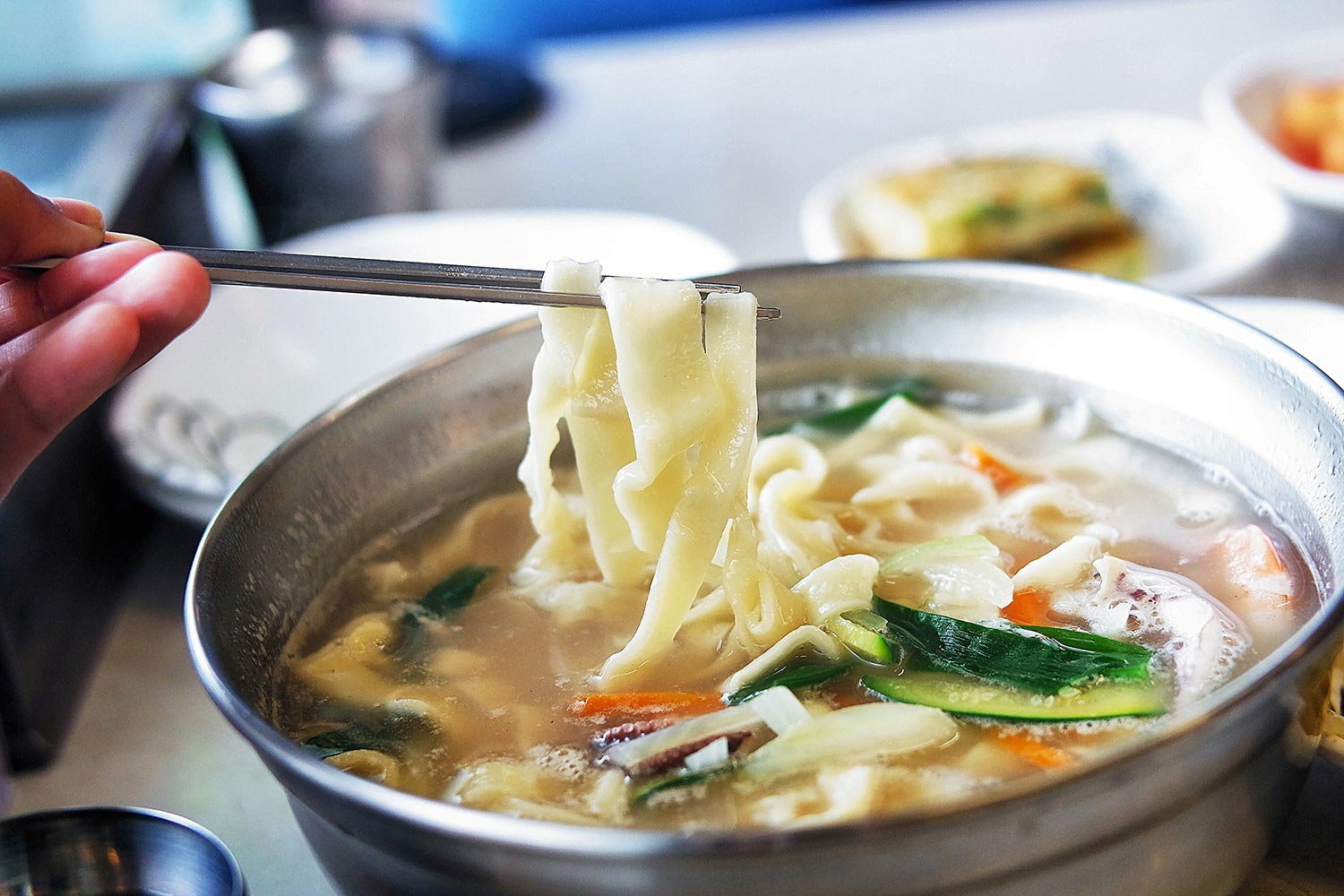 Kal-guksu (knife-cut noodle soup)